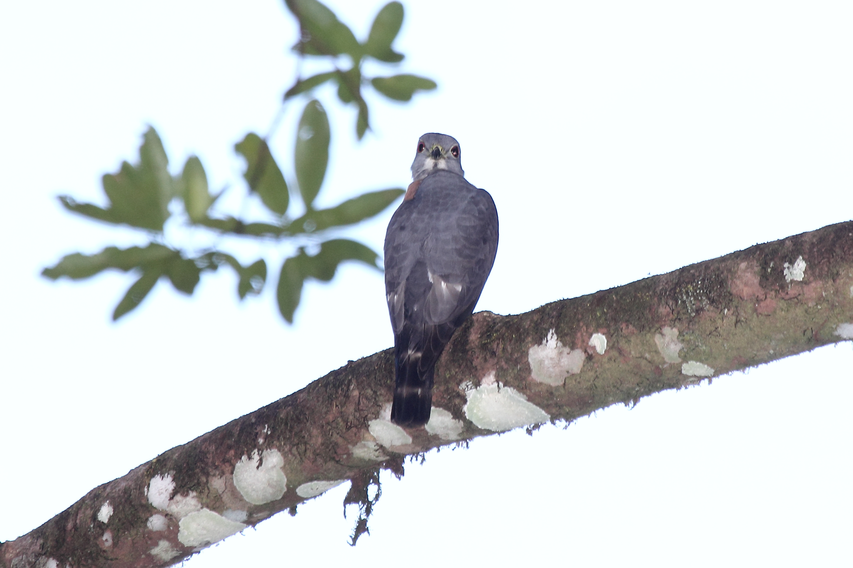 Double-toothed Kite (Harpagus bidentatus)